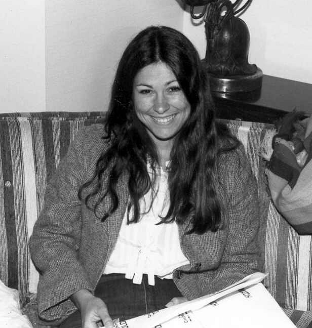 Photo of Diana Canova, of the TV show SOAP, at National Flim Society Convention, May 1979.